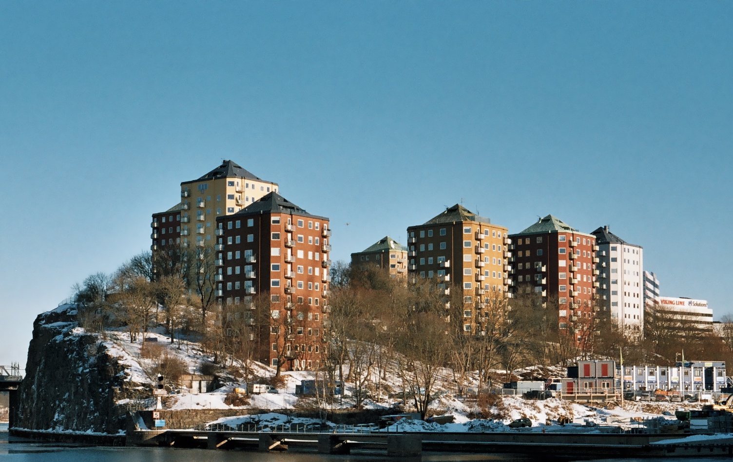 Danviksklippan